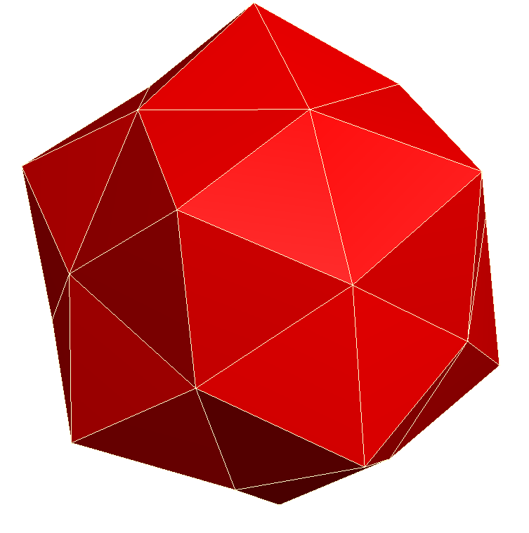 concave deltahedron